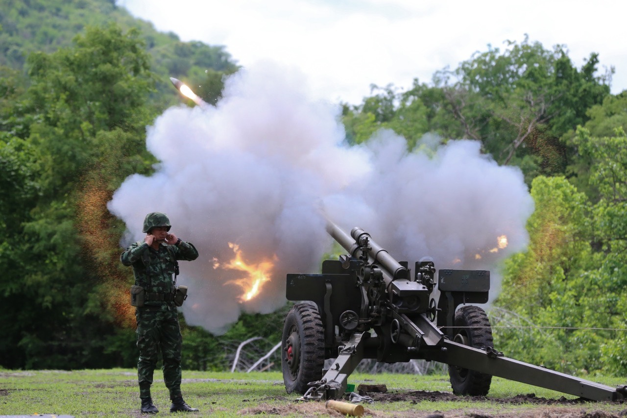 M101 L33, Extender range ammunition